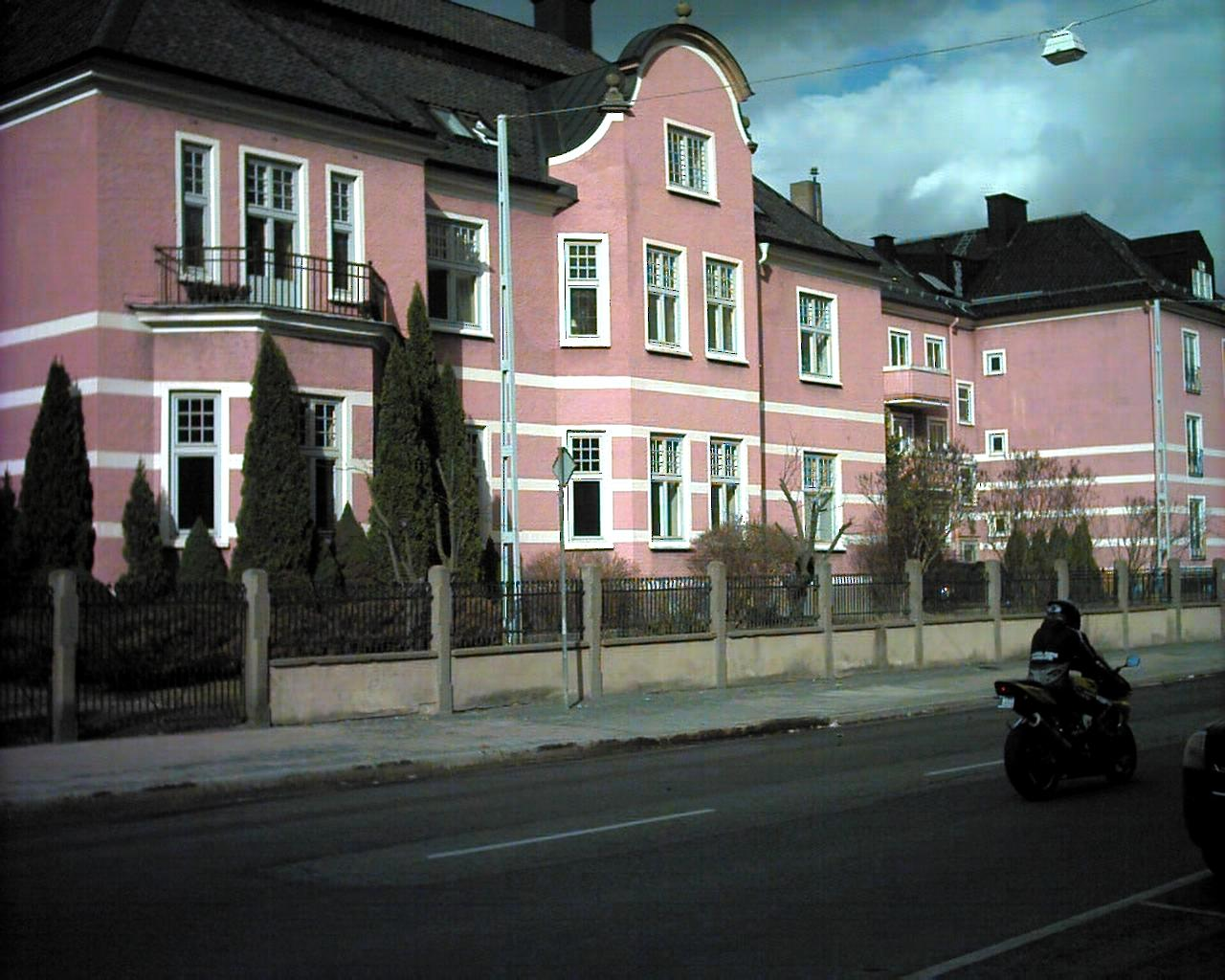 The house where Dag Hammarskjöld was born. Located at Liljeholmen in Jönköping.